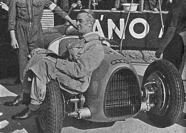 Bernd Rosemeyer at the depot before the start in Brno (1935)